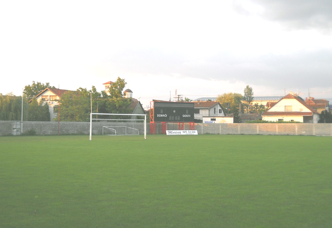 FK Proleter football stadium in Klisa / Slana Bara neighborhood in Novi Sad.